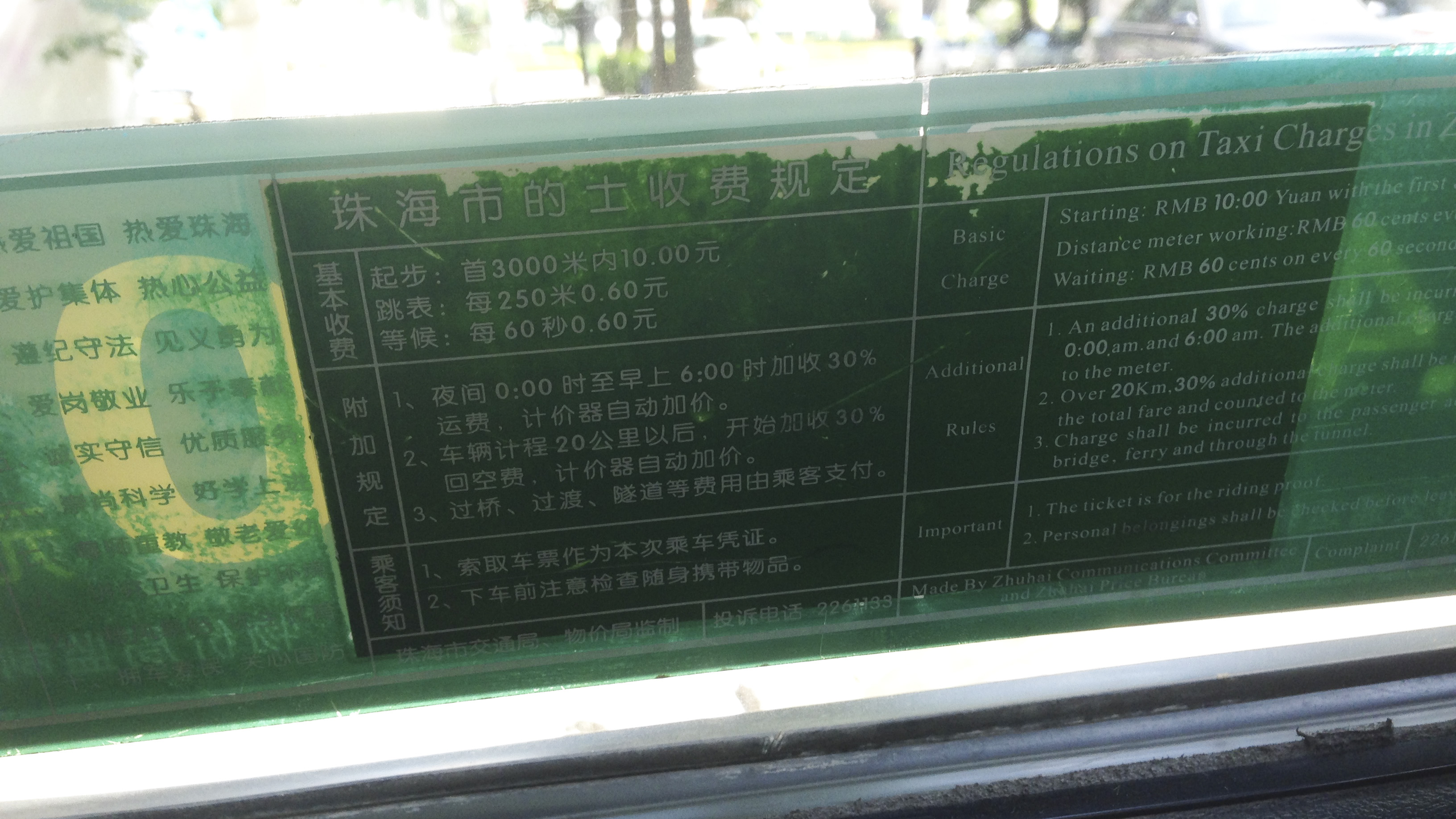 Zhuhai Taxi Fare Table